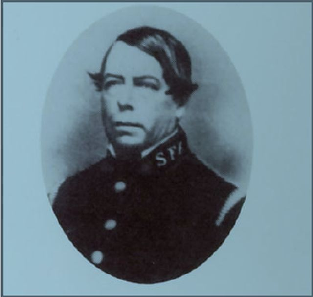 Number 470 Fire Bell: Thomas Bown who imported the Number 470 Bell from Glasgow and from whom the insurance companies purchased the bell. As Superintendent of the Insurance Companies Fire Brigade, he was instrumental in having the bell erected in the George St Fire Station in